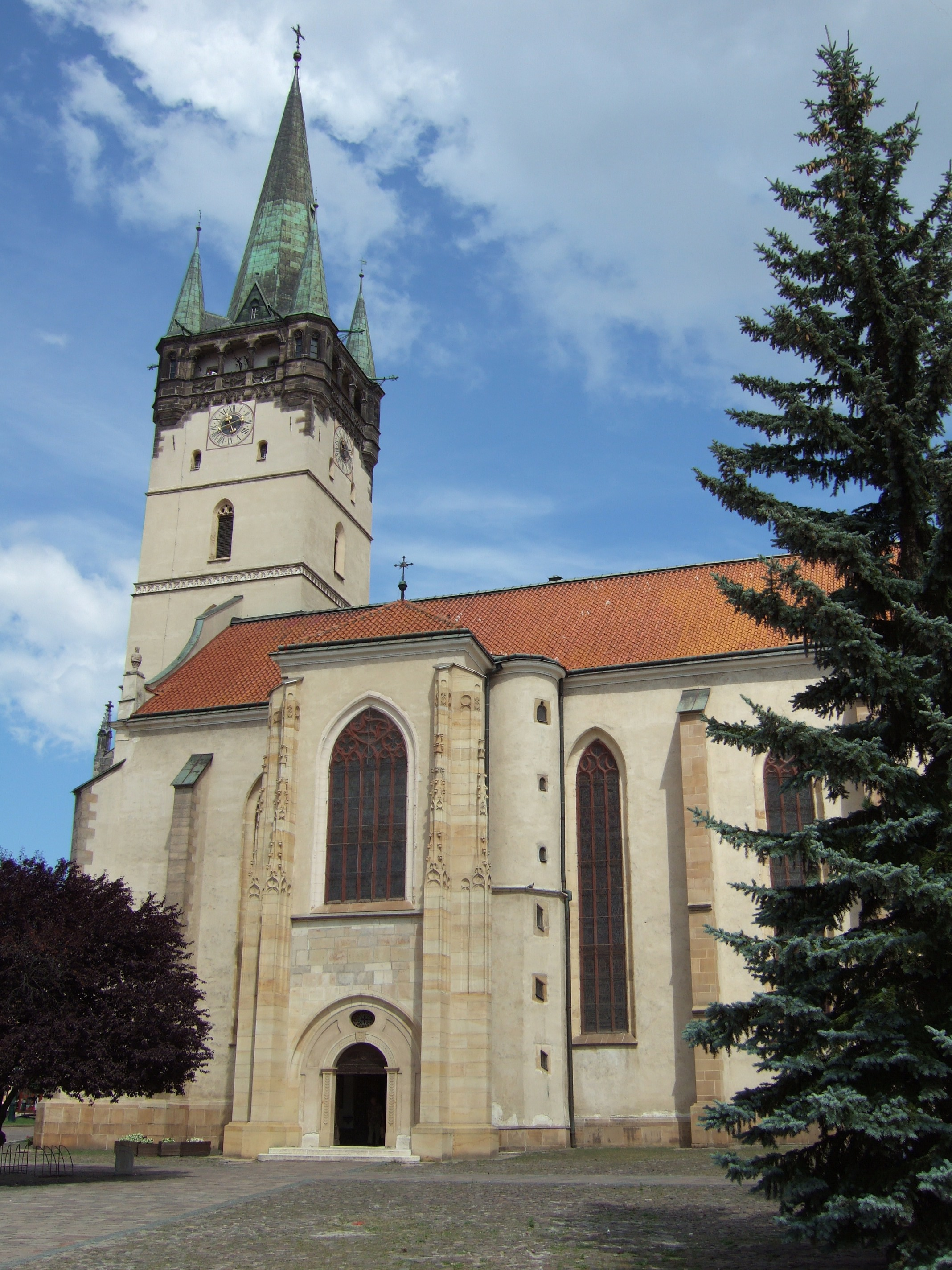 The Church of St. Nicholas in Prešov, Slovakia